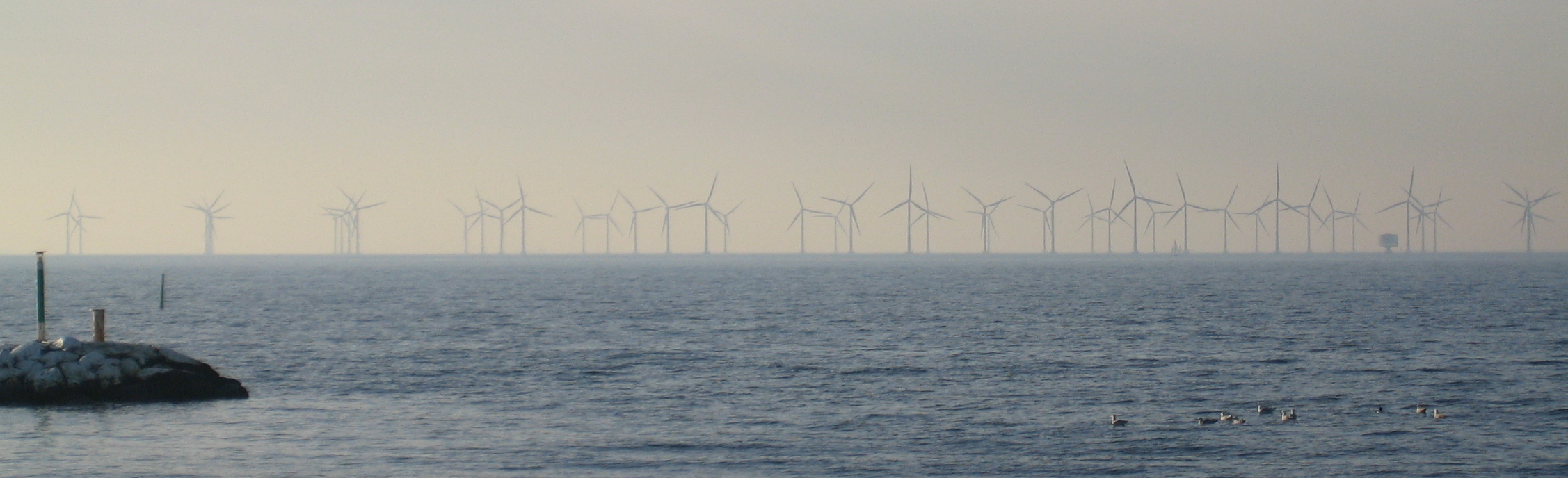 The wind farm at Lillgrund in Öresund, offshore from Malmö.